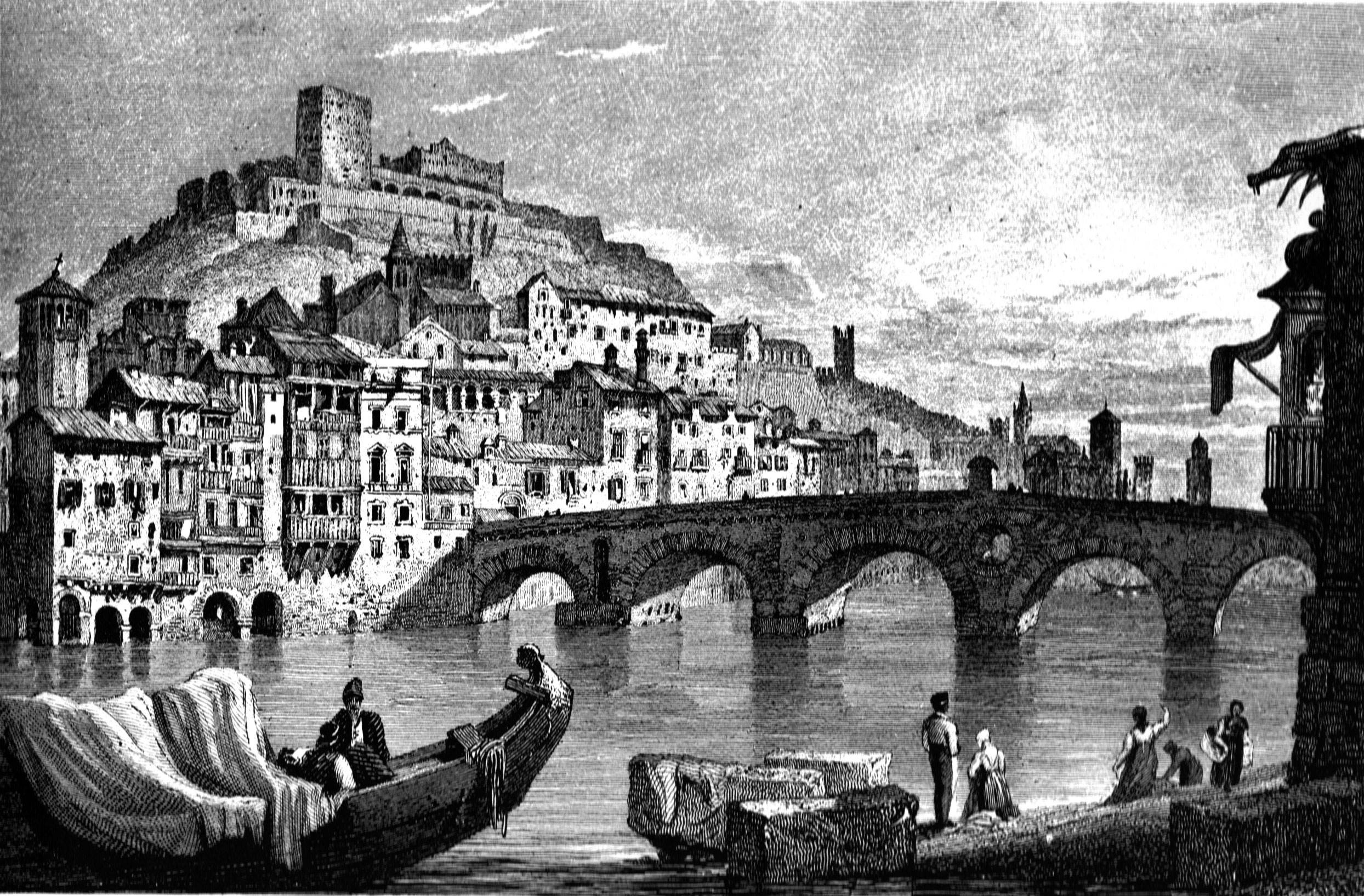 Verona at the Ponte di Pietra bridge, around 1825. Drawing by Samuel Prout, engraving by J.T. Willmore.